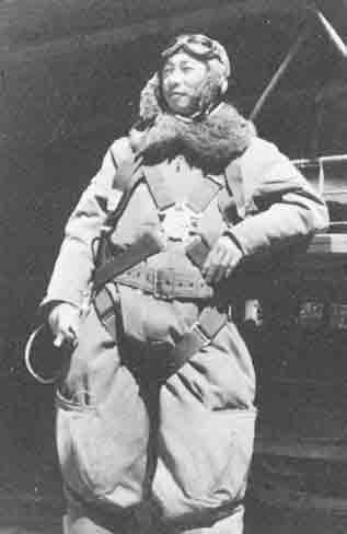 Isamu Kashiide (1915 - 1994)